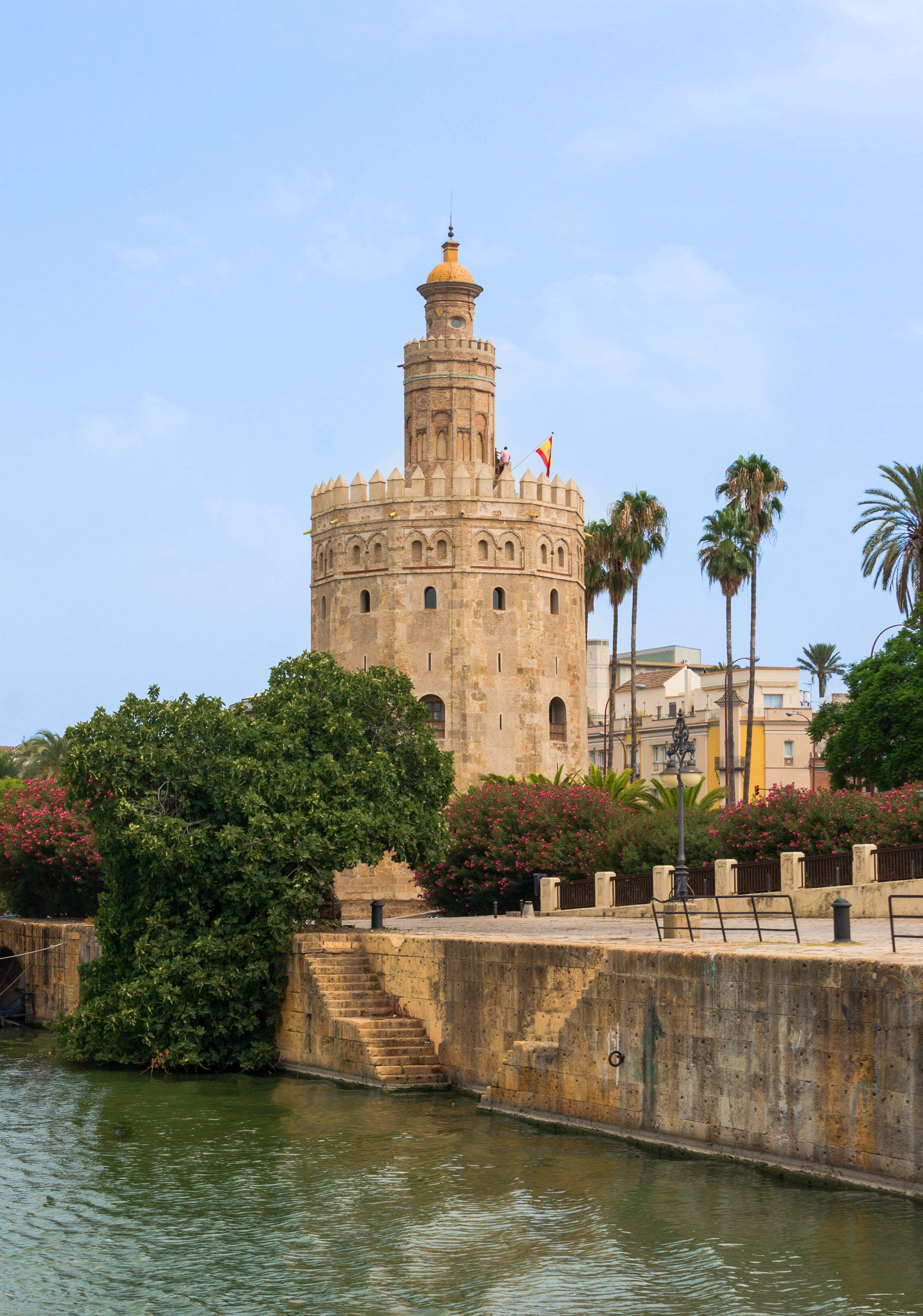 The Tower of Gold (Torre del Oro) as seen from a boat on the Guadalquivir river, Seville, Spain.